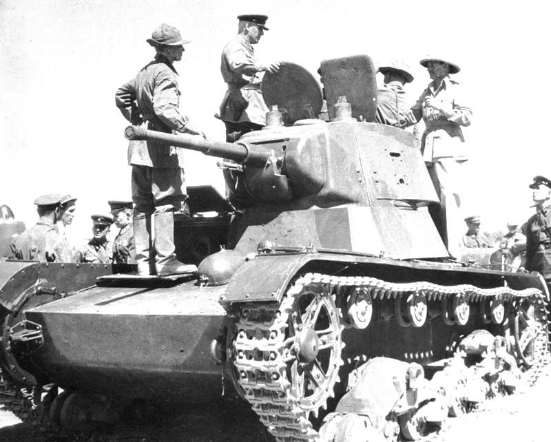 British soldiers curiously inspecting a T-26 battle tank of the Soviet occupation forces after their rendezvous in Iran. Sunday, August 31, 1941.